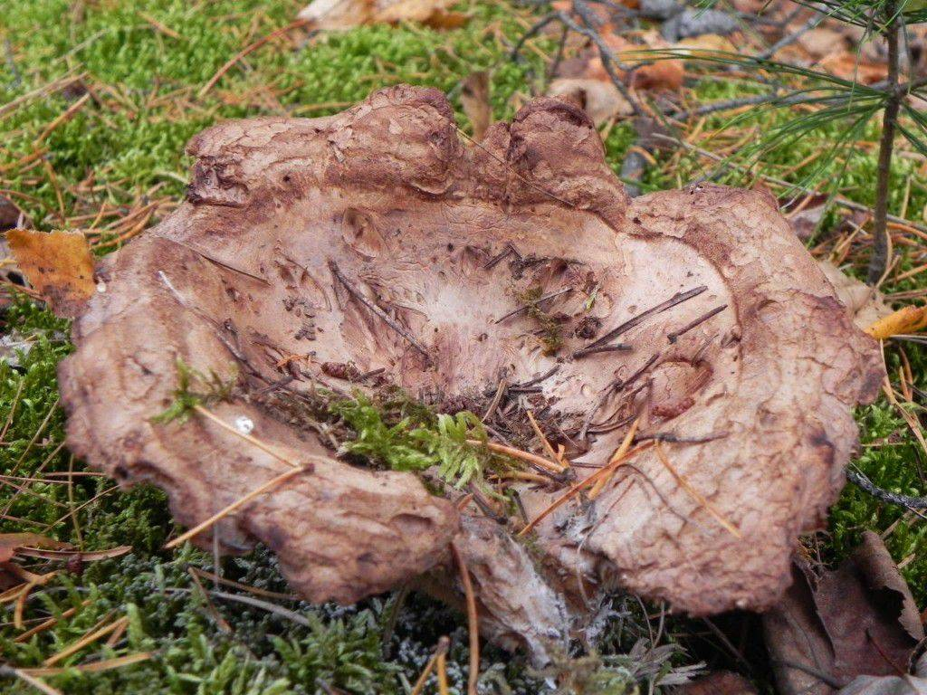 Bankera violascens (Alb. & Schwein.) Pouzar Location: Deep River, Ontario, Canada For more information about this, see the observation page at Mushroom Observer.